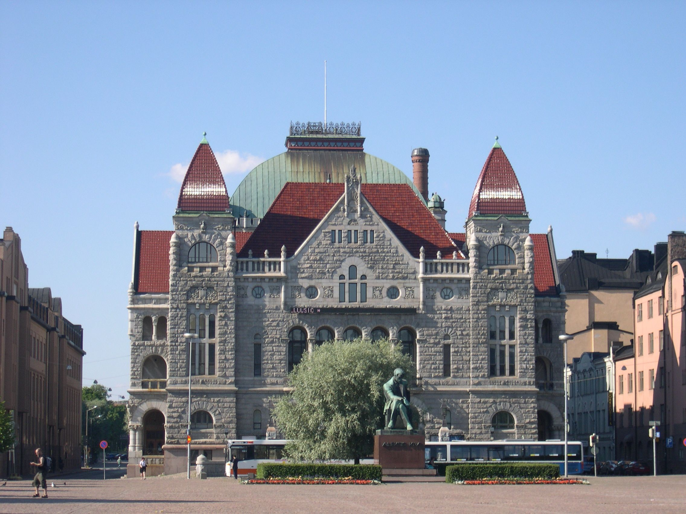 Image title: Stone building Image from Public domain images website